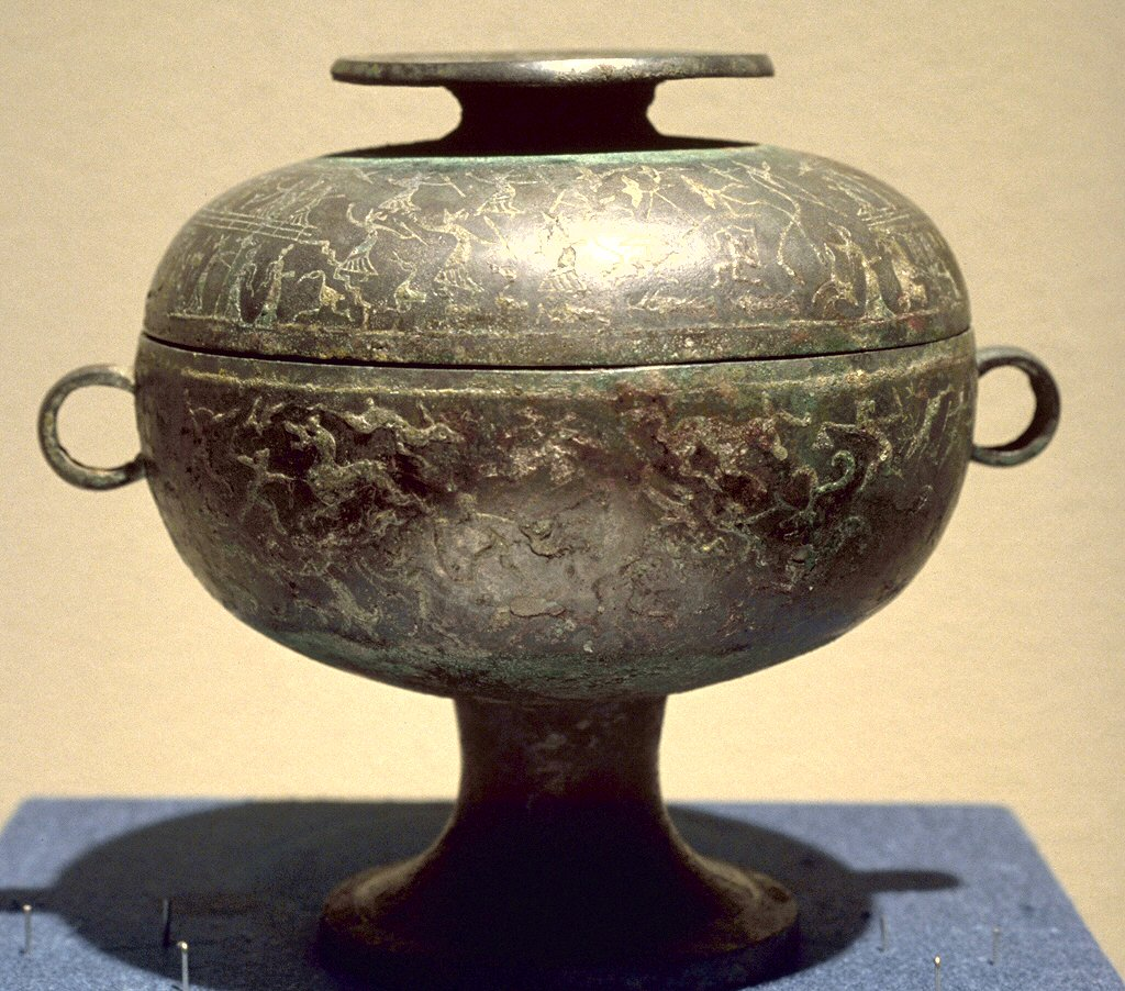 On the lid are scenes of hunting and of related ritual activities: the selection of mulberry branches for bows, the shooting of birds, and the sacrifice of a winged animal. The section shown in the drawing depicts the preparation of food within a raised building. Below, musicians strike hanging gongs and bells. Outside, four figures brandishing spears perform a weapons dance. Around the bowl of the vessel appear armed men among animals, many of them fantastic.